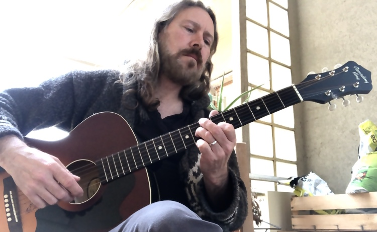 Buck Curran, the musician playing the guitar